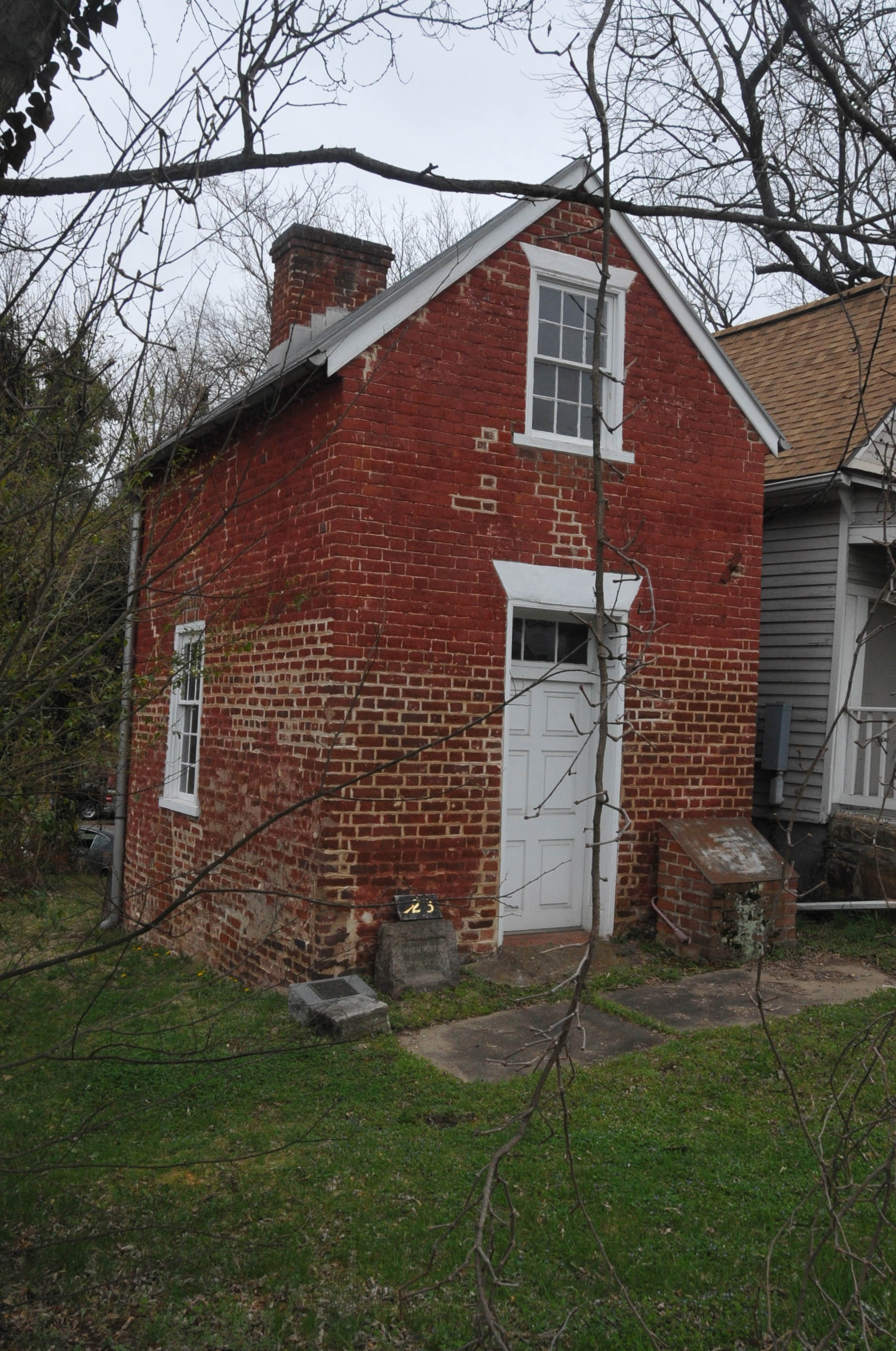 MAGISTRATE’S OFFICE AND ALSO KN0WN AS THE CUSTOMS HOUSE. OLDEST BUILDING IN FALMOUTH